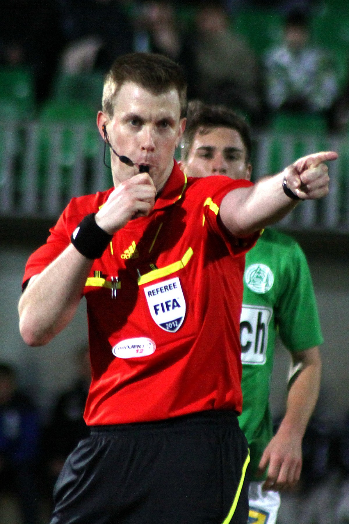 Markus Hameter - Referee (association football) of Austria